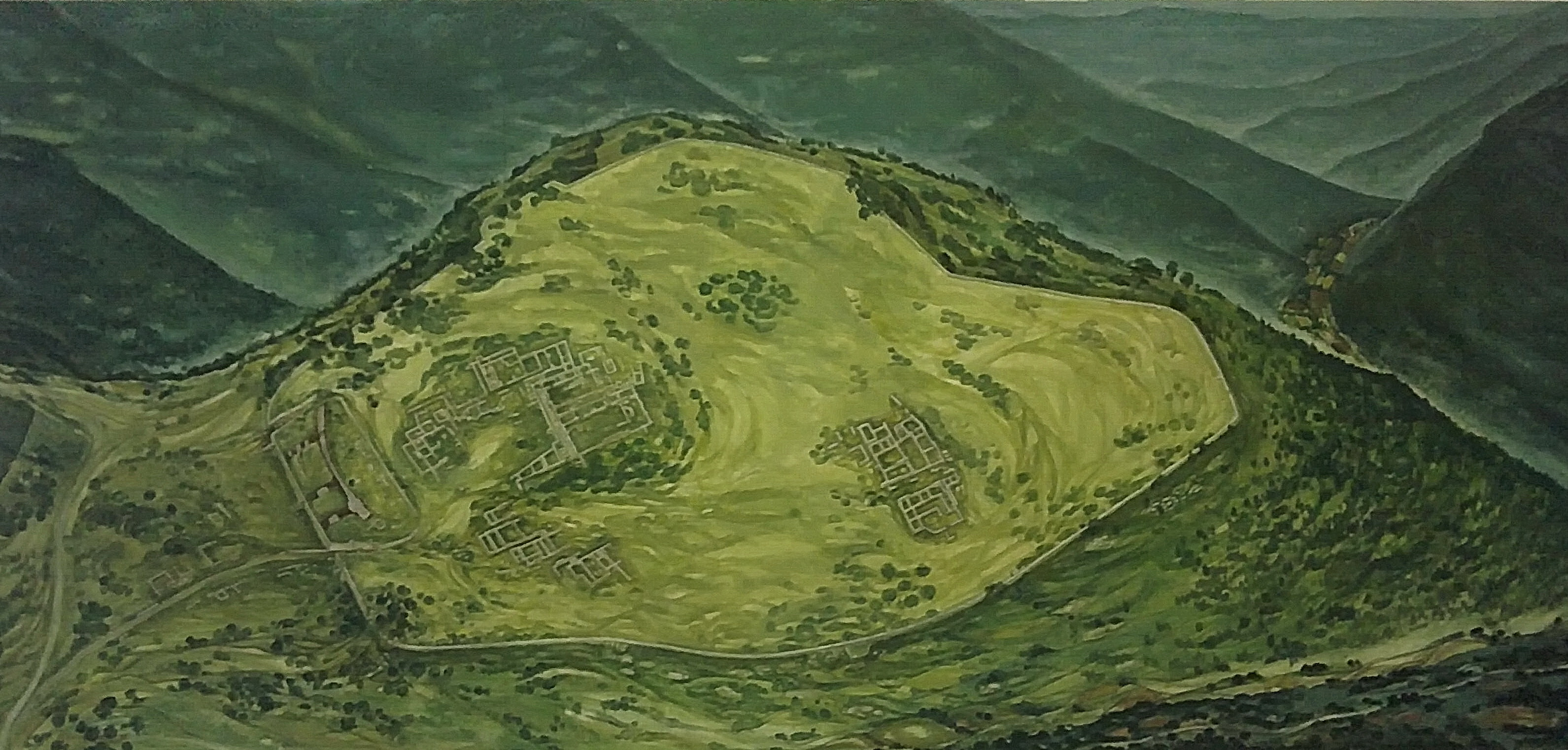 Painting of Nesactium from the museum in Pola